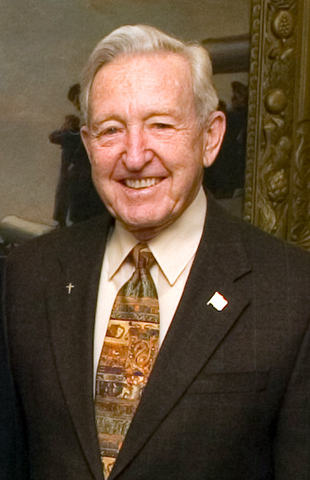 061205-N-0696M-018 Washington - 22nd Chief of Naval Operations Admiral Thomas B. Hayward